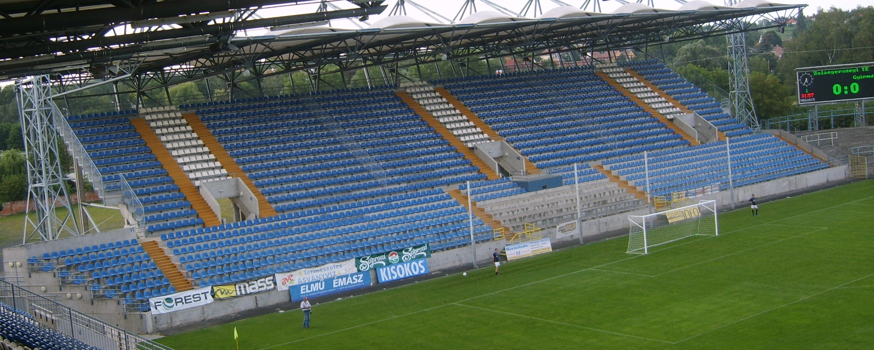 ZTE Arena West stand